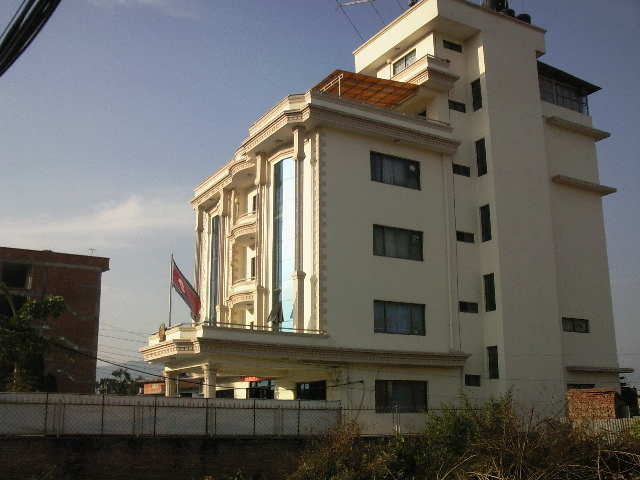 Embassy of the DPRK in Korea